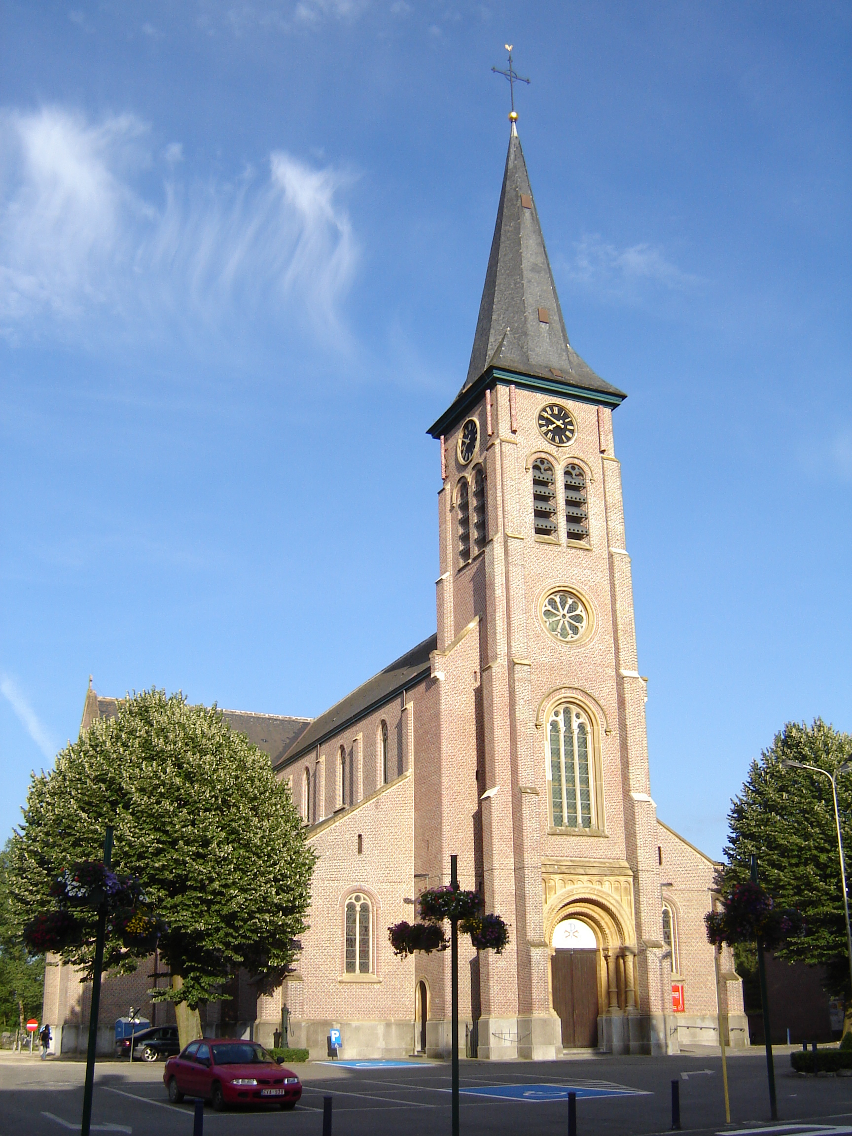 Church of Saint Peter's Chains in Merelbeke, East Flanders, Belgium.